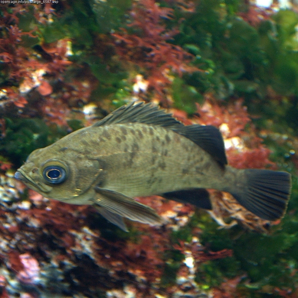 メバル Rockfish Kingdom:Animalia Phylum:Chordata Class:Actinopterygii Order:Scorpaeniformes Family:Sebastidae Genus:Sebastes 動物界 脊索動物門 条鰭綱 カサゴ目 メバル科 メバル属 Species Sebastes Inermis Location: Shin Enoshima Aquarium, Kanagawa, Japan Other photos: NCBI Taxonomy ID:160818 Copyright: OpenCage